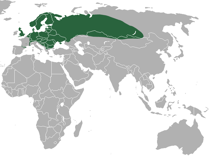 Common Shrew (Sorex araneus) range